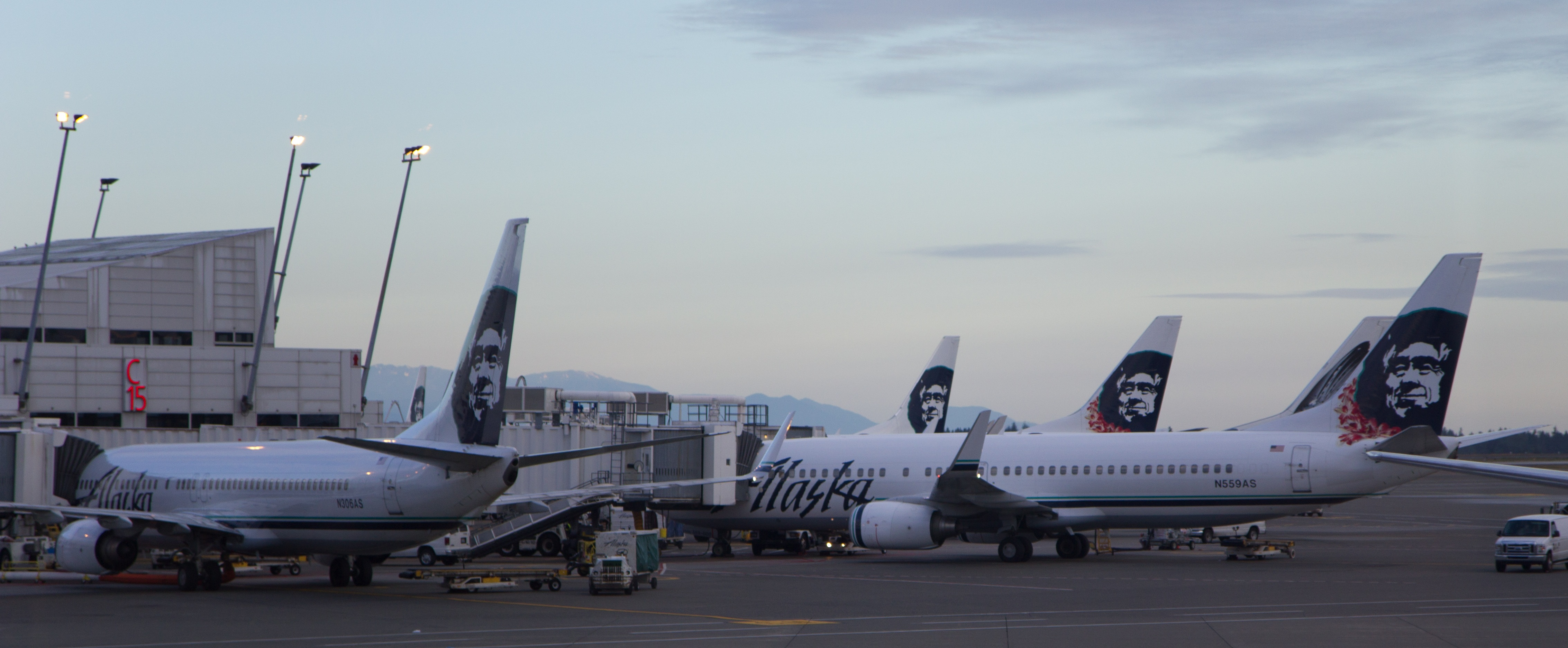 Alaska Airlines operations.